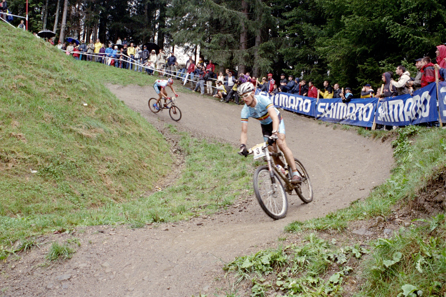 Men's Elite XC at 2004 UCI Mountain Bike and Trials World Championships at Les Gets, France